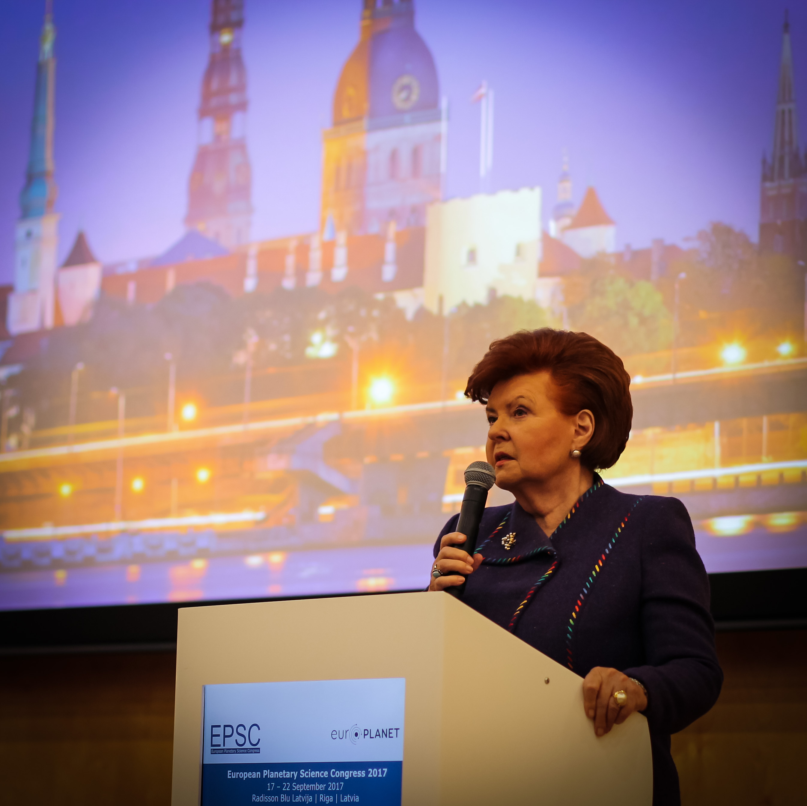 Dr. Vaira Vīķe-Freiberga - (Past two-time president of Latvia) at the international European Planetary Science Congress (EPSC 2017) Riga 18 September 2017